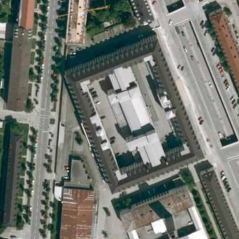 Orthophoto